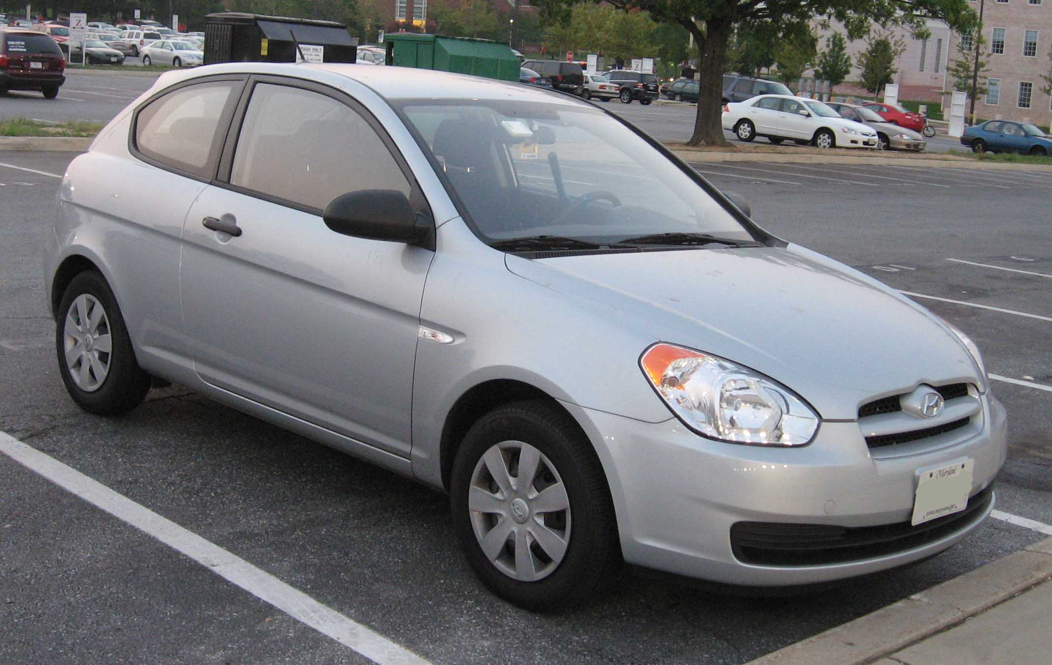 2006-2008 Hyundai Accent GS photographed in College Park, Maryland, USA.